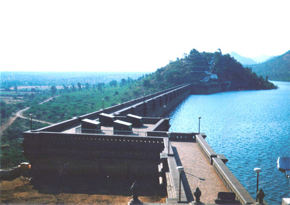 Mari Kanive - The oldest dam of Karnataka constructed by visveshwaraya